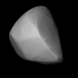 3D convex shape model of 1023 Thomana, computed using light curve inversion techniques. J. Hanuš, J. Ďurech, M. Brož, B. D. Warner (June 2011). "A study of asteroid pole-latitude distribution based on an extended set of shape models derived by the lightcurve inversion method". Astronomy and Astrophysics 530: A134. ISSN 0004-6361. arXiv